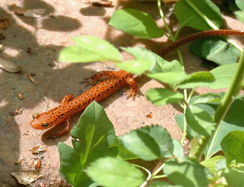 A longtail salamander (Eurycea longicauda) in the Patuxent Wildlife Research Center